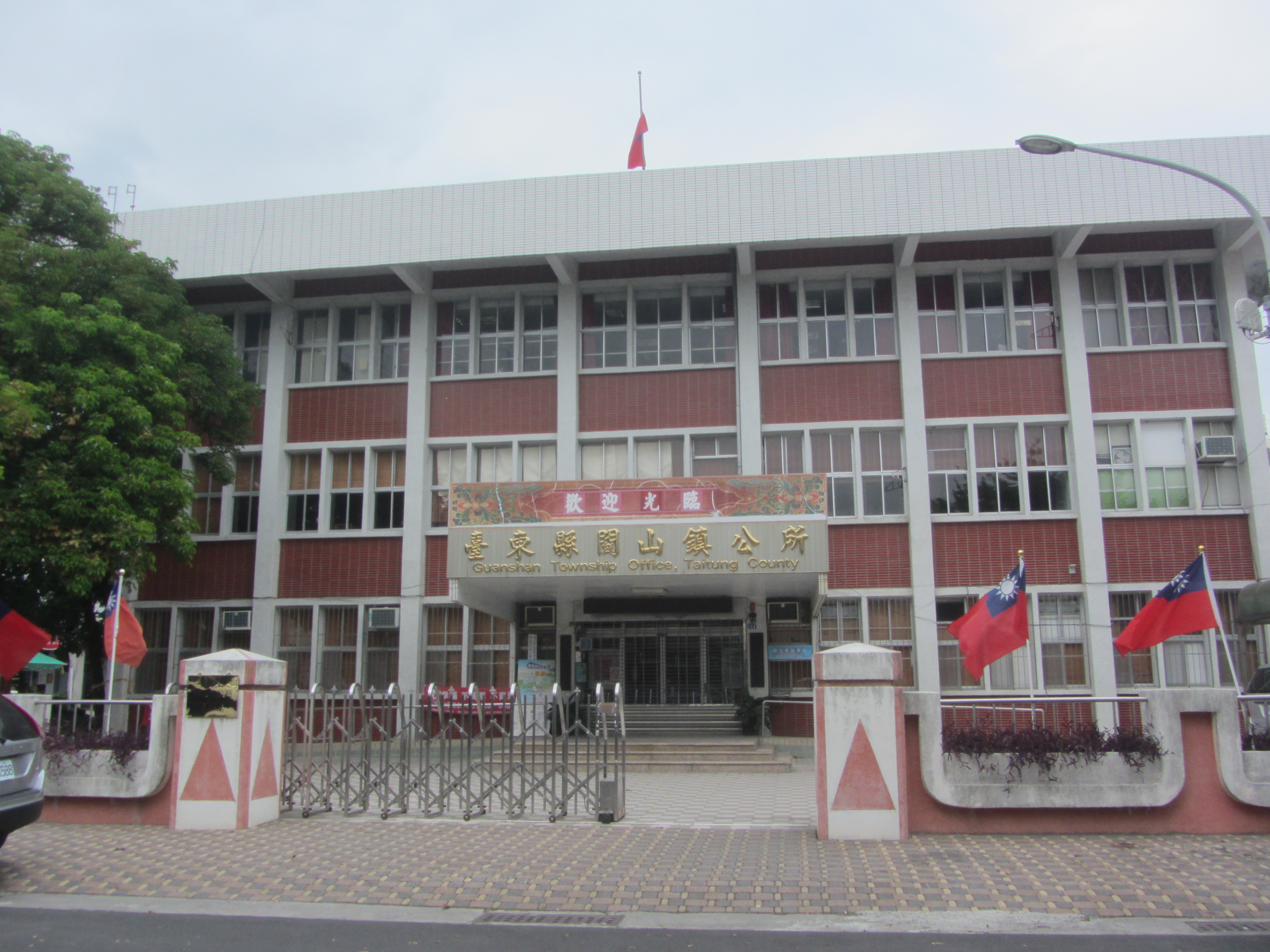 Guanshan Township Office